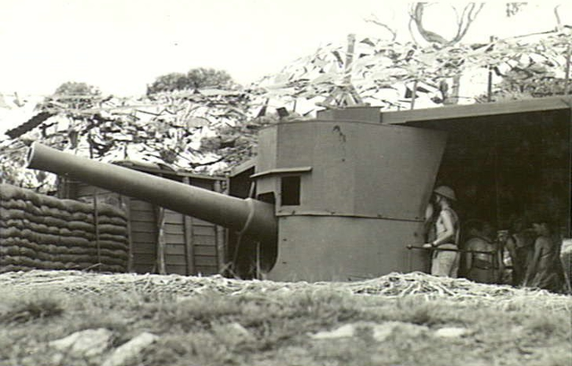 AWM caption : "ALBANY, AUSTRALIA. 1943-03-13. NO. 1 GUN (6-INCH), ALBANY FIXED DEFENCES." Comment : The gun is a BL 6 inch gun Mk V from the 1890s. It originally at South Head, Sydney, and was one of the four BL guns from the Colony of NSW which was sent to England in the late part of the 19th Century to be converted to QF.